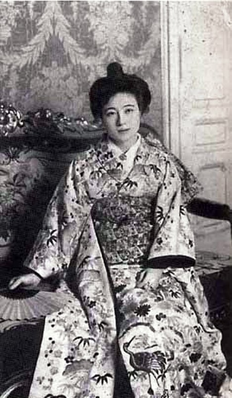 Photograph taken of Sadayakko in Berlin, during the 1901 tour. Source: Japanese Theater in the World, p. 84, 1.2A